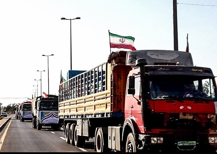 Thousands of tons of Iranian aid to the people of Deir ez-Zor arrived in Damascus.